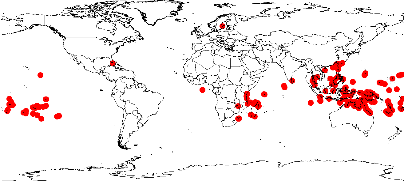 Guettarda speciosa (28th November 2018) GBIF Occurrence Download